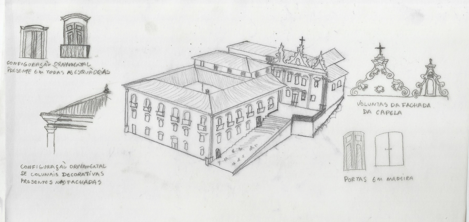 Croqui do engenho freguesia com ornamentos destacados